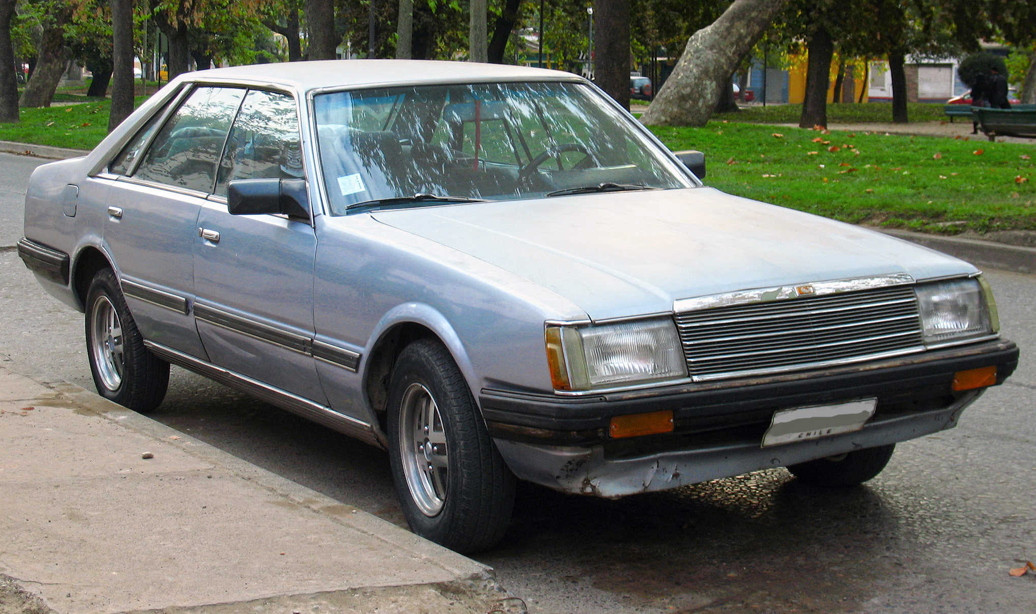 1981 Datsun Laurel 2.4 Hardtop in Chile. I didn't even know this bodystyle had been exported to LHD countries.